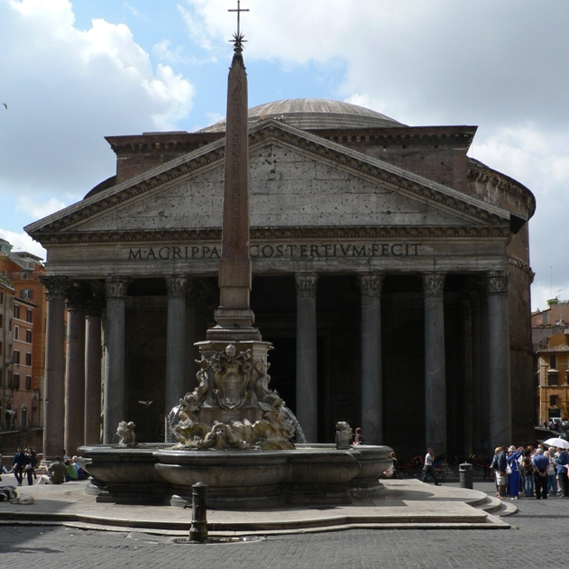 Rome. The Pantheon. Piazza della Rotonda